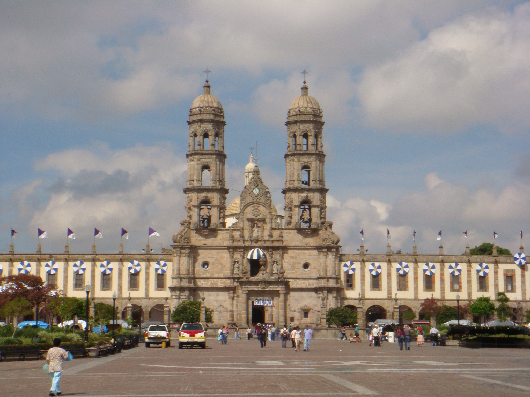 Basilica of Zapopan and Las Americas Plaza — Downtown Zapopan.